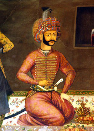 Abbas II of Persia.